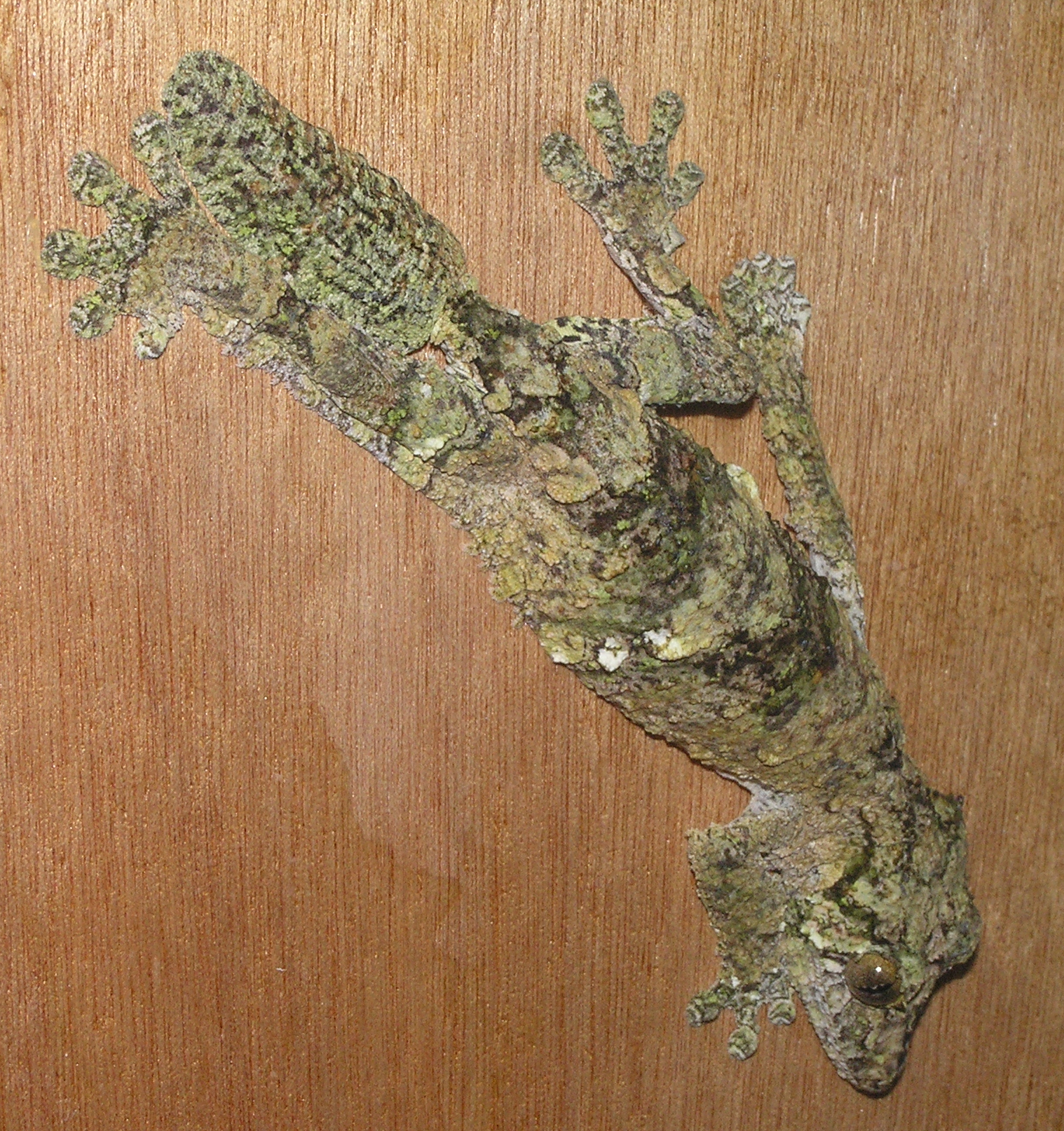 A pre-adult female of gecko Uroplatus sameiti.